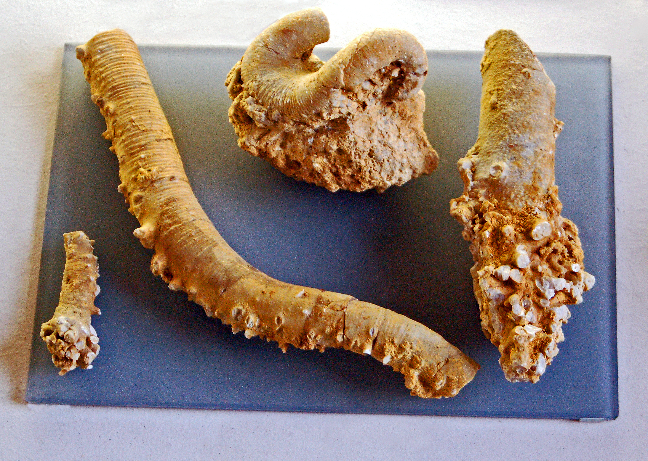 Crotalocrinites sp. from Koněprusy (Czech Republic) at the National Museum (Prague)